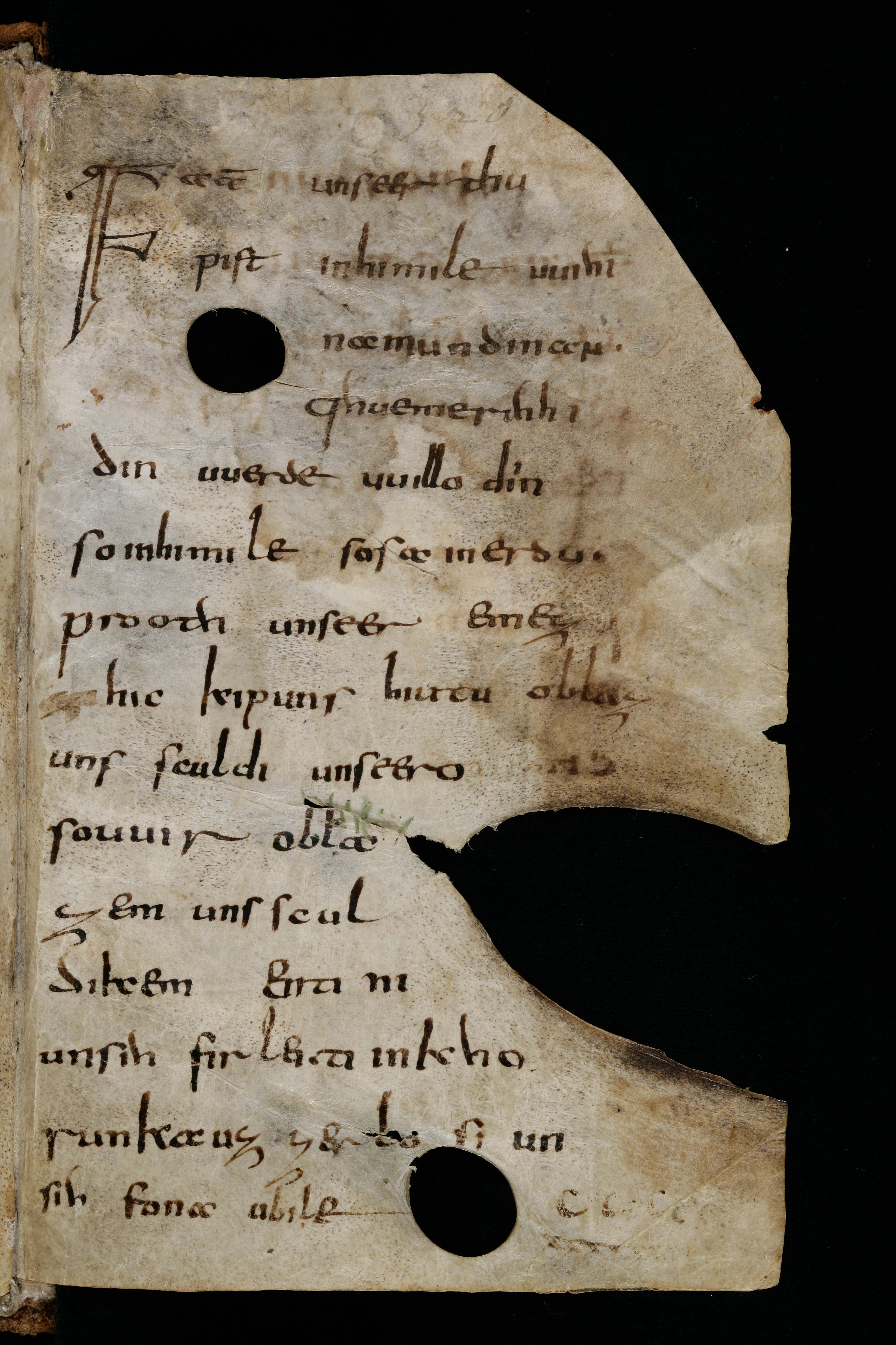 Pater noster (Codex Sangallensis 911)